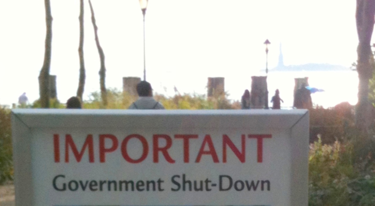 Tourists look for other activities to do after being notified by the sign of the Statue of Liberty closure on October 1, 2013 due to the US federal government shutdown. The Statue of Liberty can be seen on the far background of this picture.